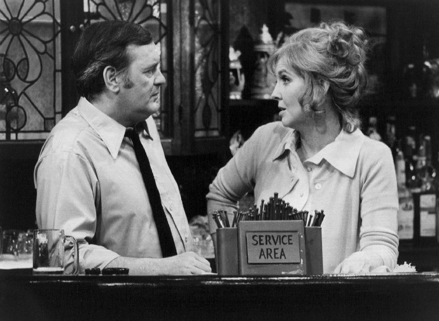 Photo of Eugene Roche as Frank Flynn and Anne Meara as Mae from the television program The Corner Bar.